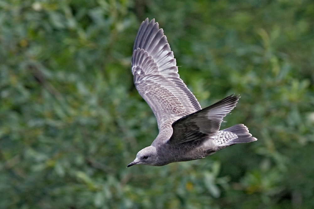 Mew Gull Larus canus brachyrhynchus (juvenile), Fish Creek Wildlife Observation Site, Tongass National Forest, Near Hyder, Alaska